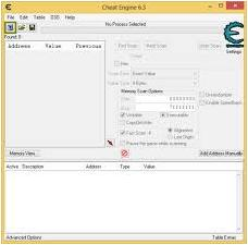 Cheat Engine on Windows 8